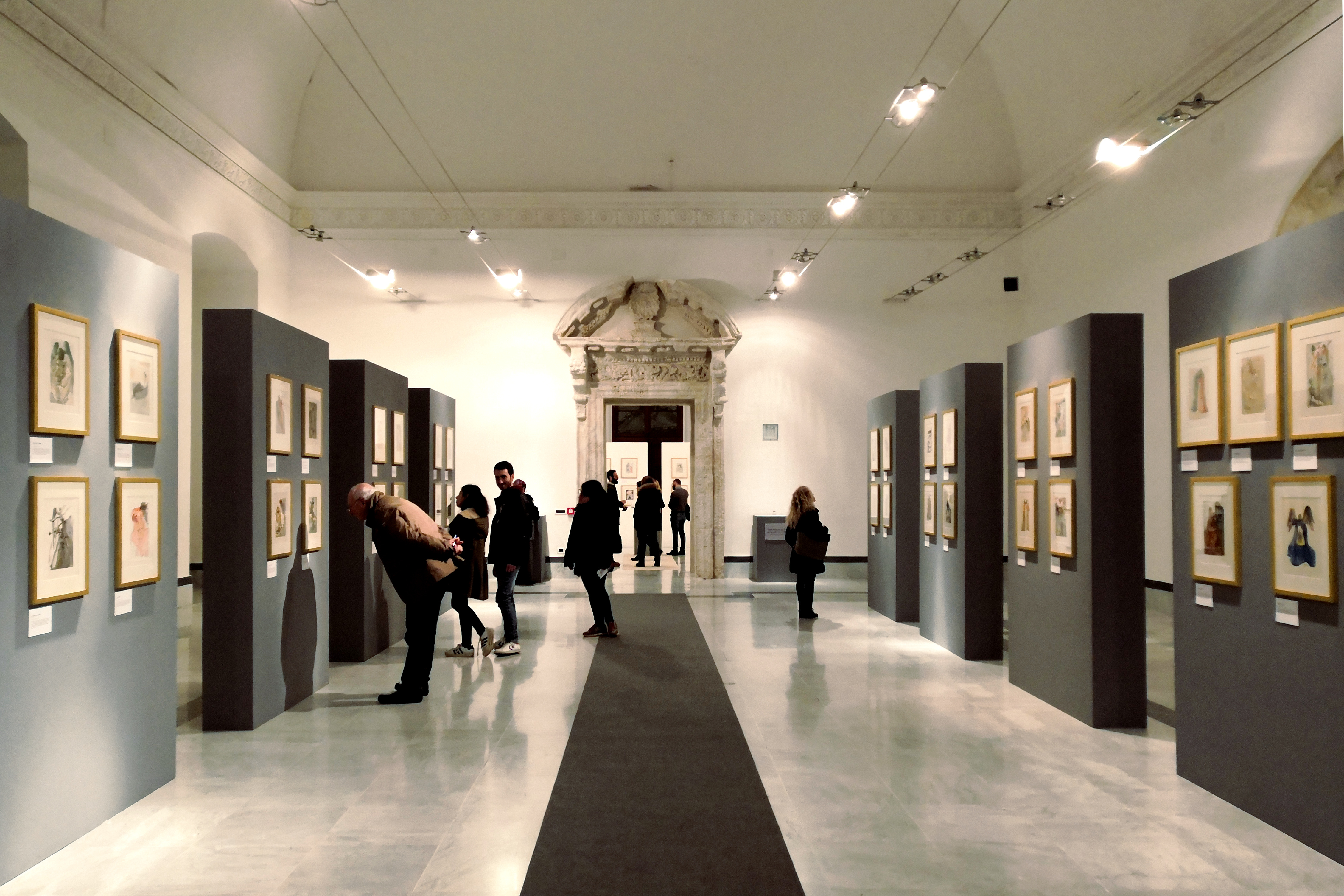 One of the rooms inside Moncada Palace/Civic Art Gallery in Caltanissetta, Italy, during exhibition on Salvador Dalì xylographies, named "Dalí – Viaggio Surreale nella Divina Commedia", 2018-2019.